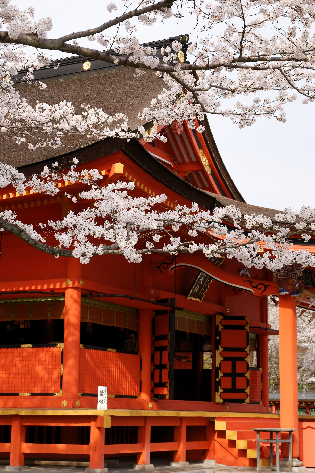 Outer shrine of Fujisan Hongu SengenTaisha (富士山本宮浅間大社)